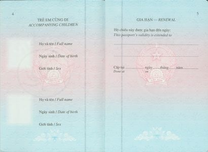 Accompanying children page and renewal page of Vietnamese Passport